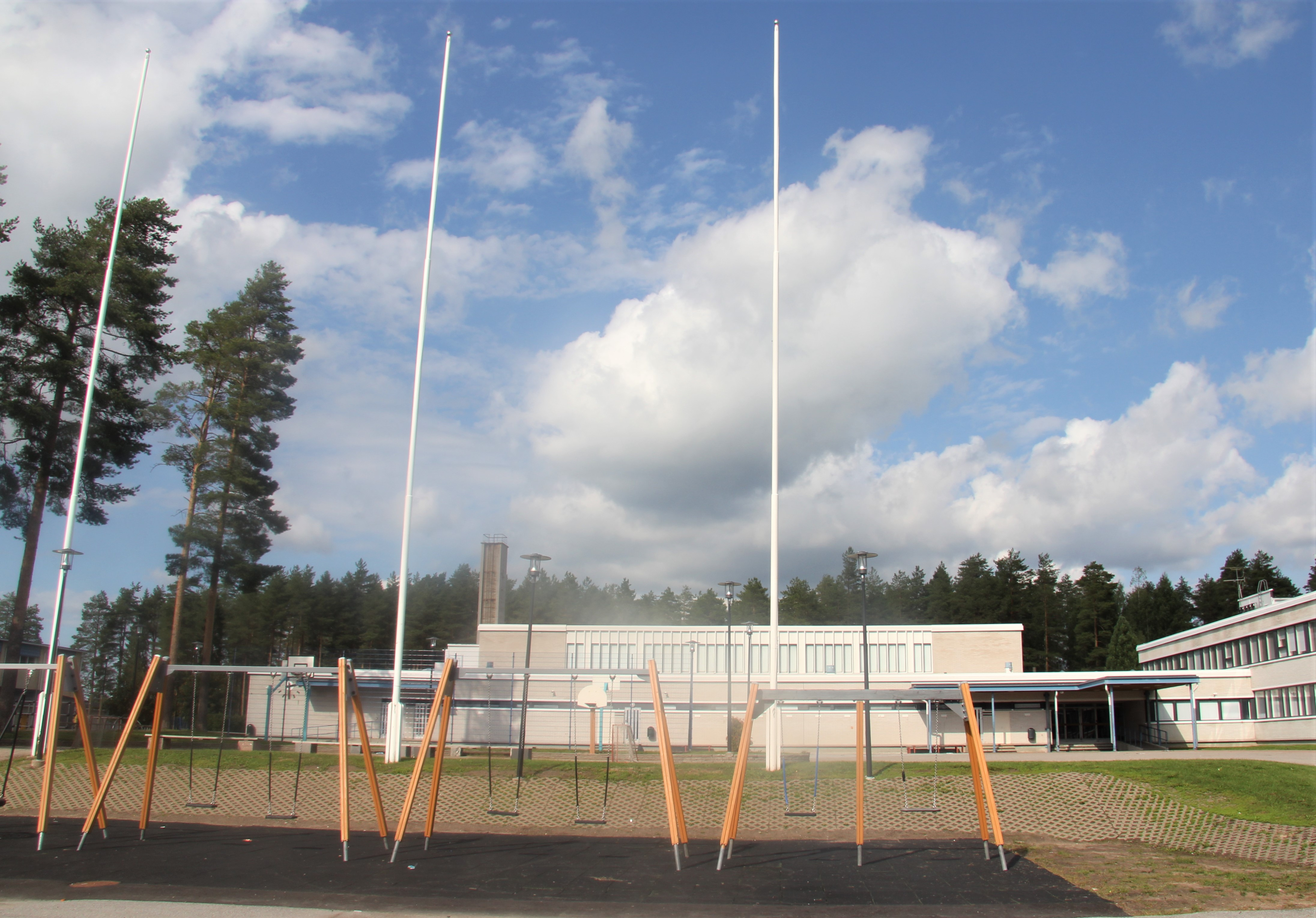 Sonkajärvi School Center in Sonkajärvi, Finland.